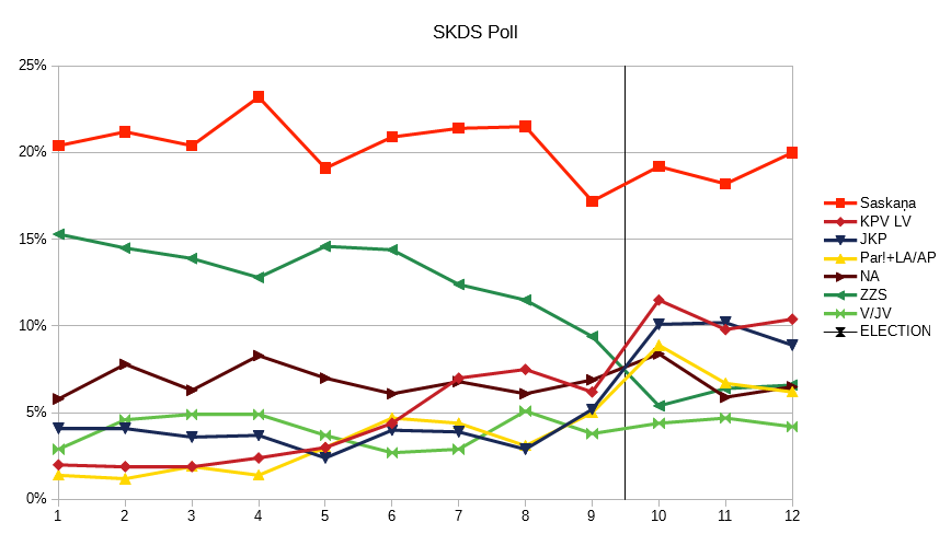 All SKDS political party popularity poll results for 2018.